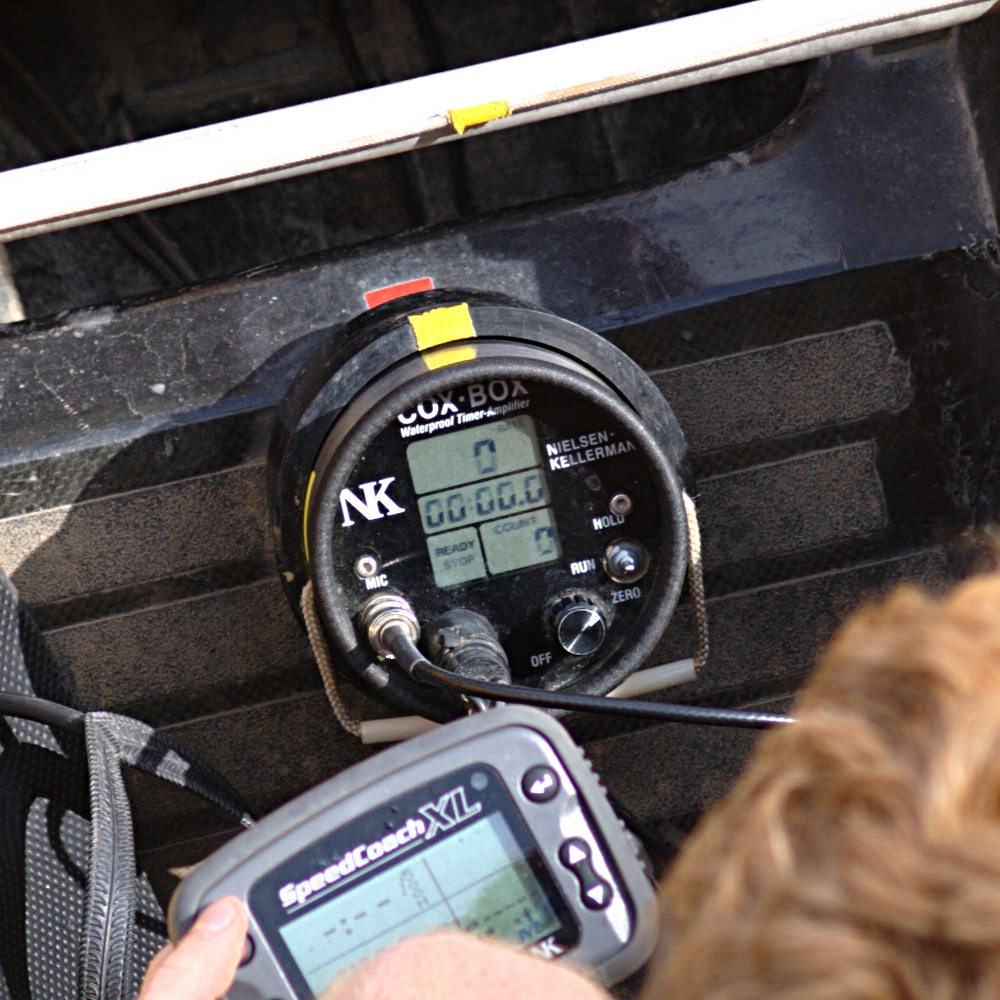 A cox box in a yellow rowing shell, viewed from above. Original description on Flickr: Everyone has a Cox Box. Cropped from the original.